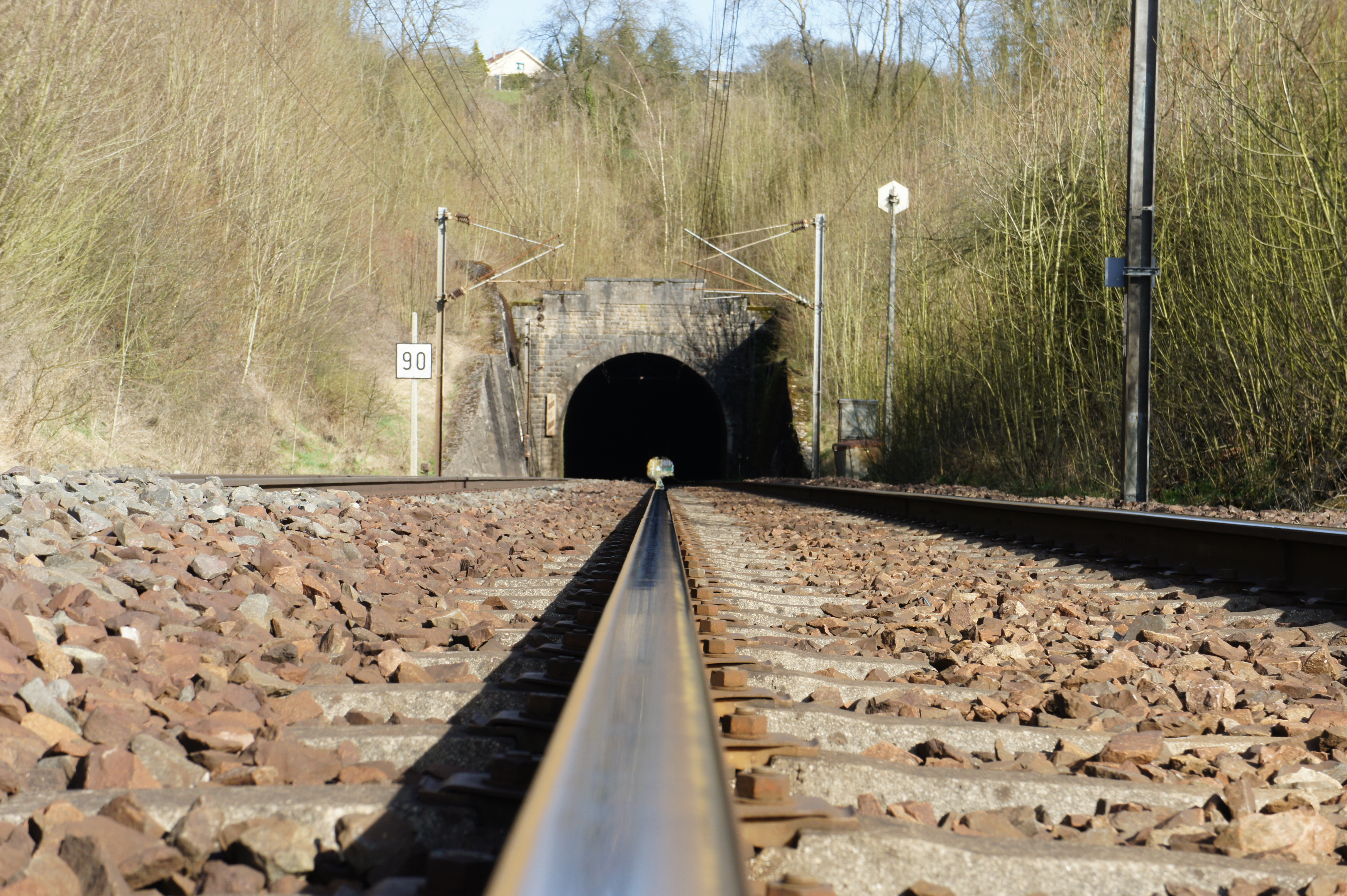 Railway Tunnel Montmédy (France) - West entrance Thonne-les-Près